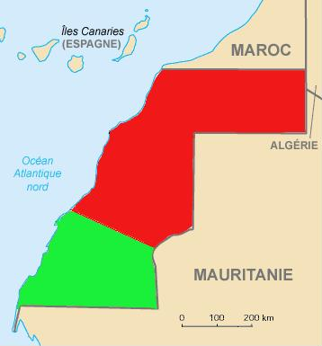 sahara division